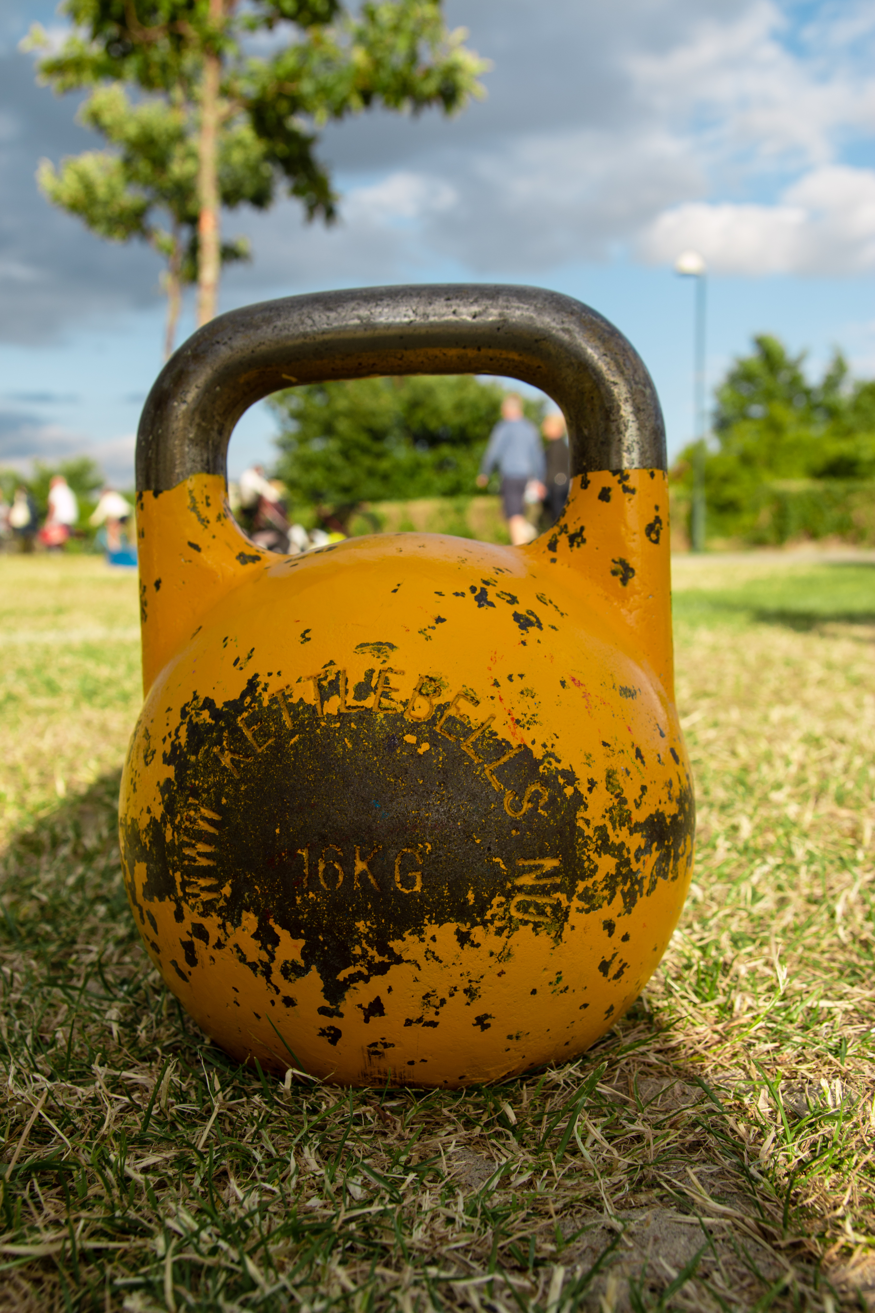 A 16 kilo competition kettlebell